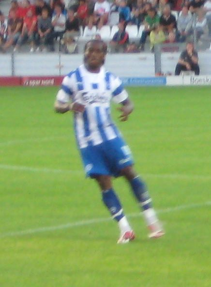 This a picture of Eric Djemba-Djemba during a match between Vejle Boldklub and Odense Boldklub